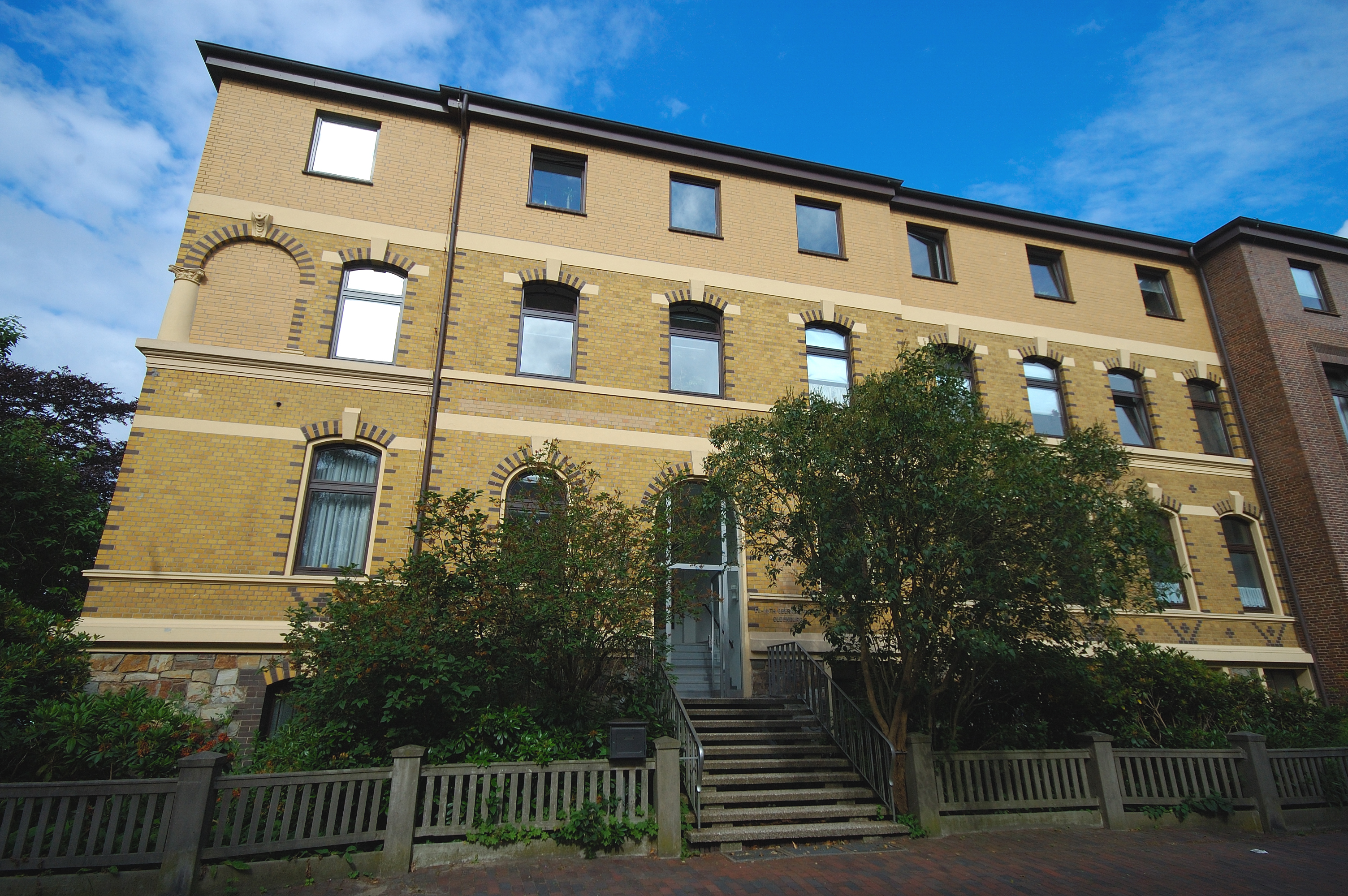 Office building of the Main Council of the Lutherian Church of Oldenburg